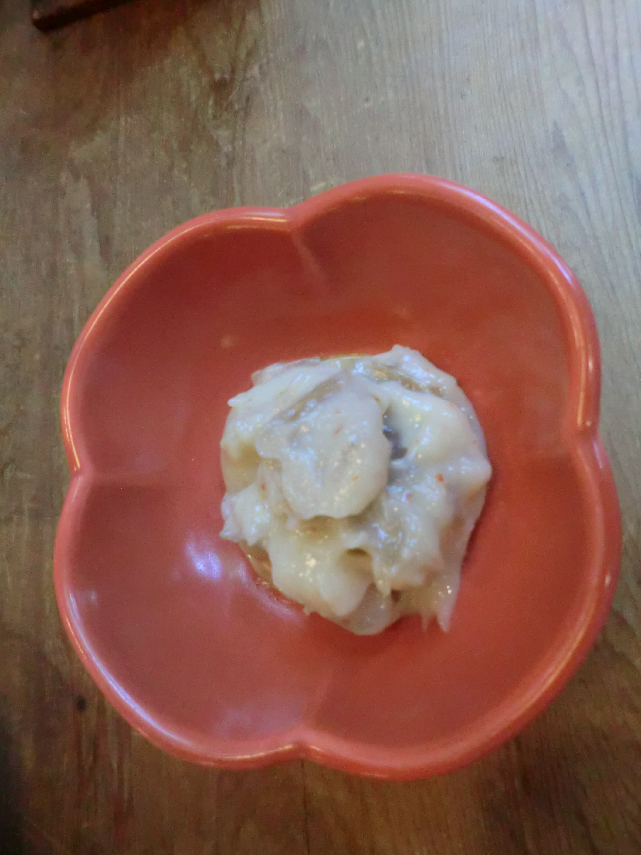 Kasuzuke of Umitake(Barnea dilatata japonica, a kind of shell). photographed at Kurume,Fukuoka,Japan.